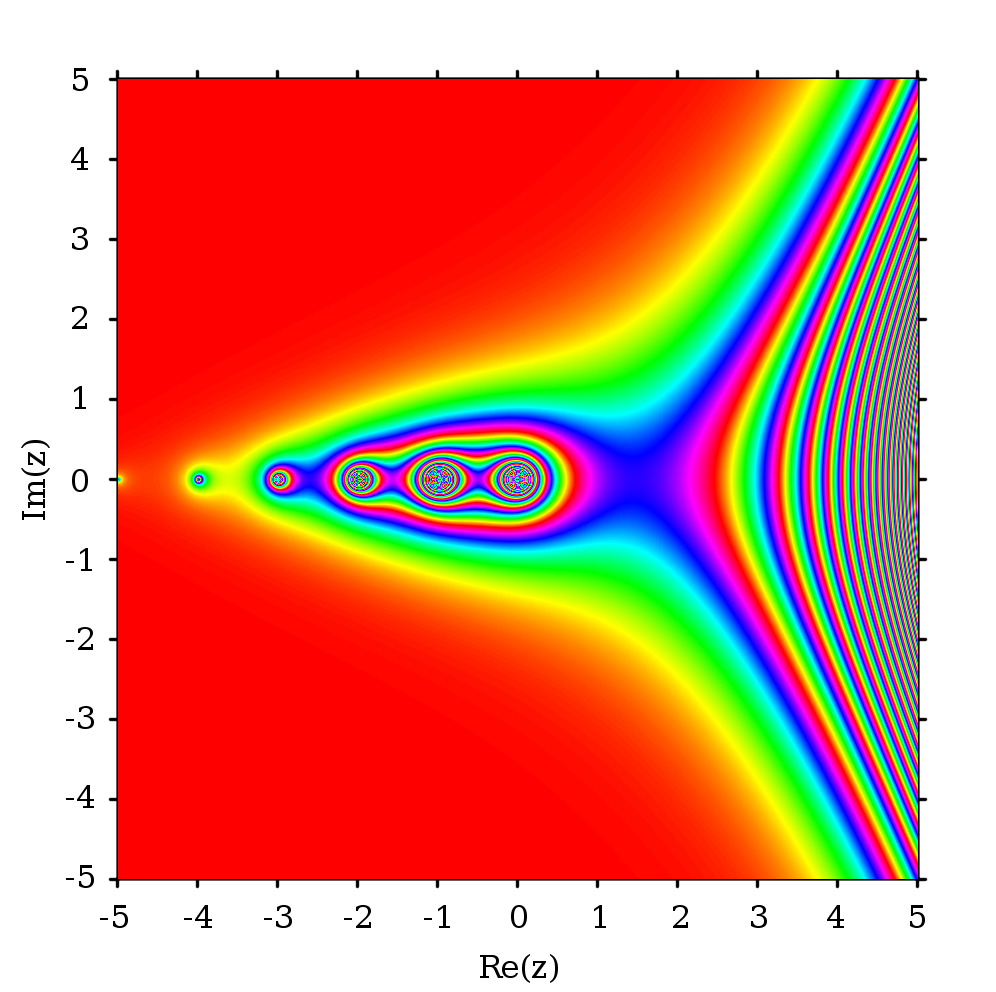 Absolute value of the Gama funkce (colors cycling).